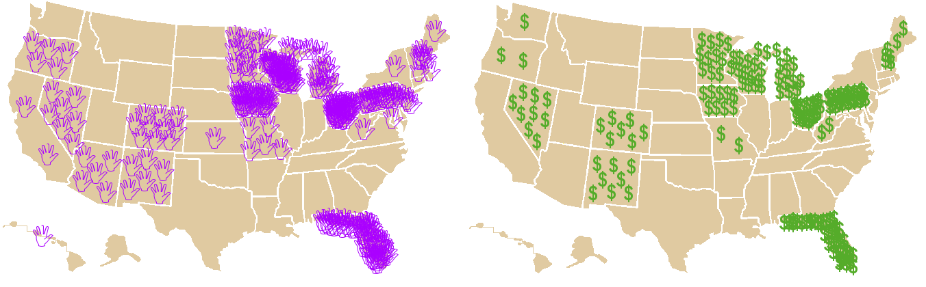 These maps show the amount of attention the Bush and Kerry campaigns (considered together) gave to each state during the final five weeks of the 2004 election: At left, each waving hand represents a visit from a presidential or vice-presidential candidate during the final five weeks of the election. (Candidates' visits to their own home states are not counted.) At right, each dollar sign represents one million dollars spent on TV advertising by the campaigns during the same time period. Data from FairVote's report, "Who Picks the President?"